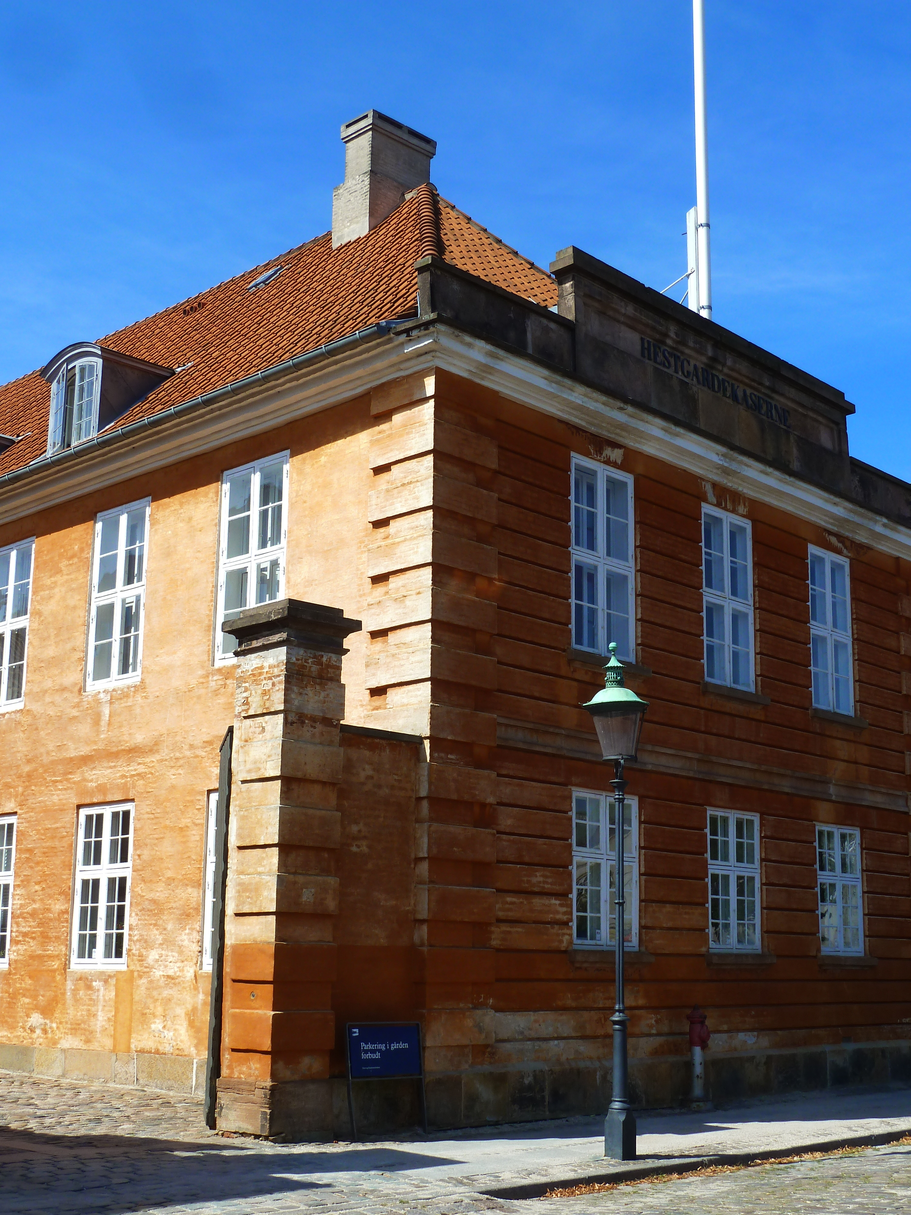 The Toyal Horse Guards Barracks seen from Frederiksholms Kanal in Copenhagen, Denmark